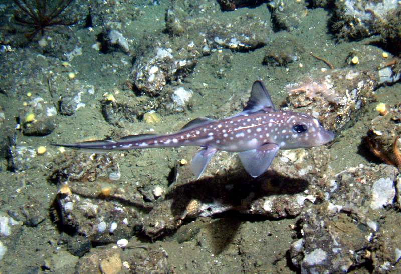 Spotted ratfish (Hydrolagus colliei) observed off Pt Pinos during a sanctuary seafloor monitoring survey using the Delta submersible.